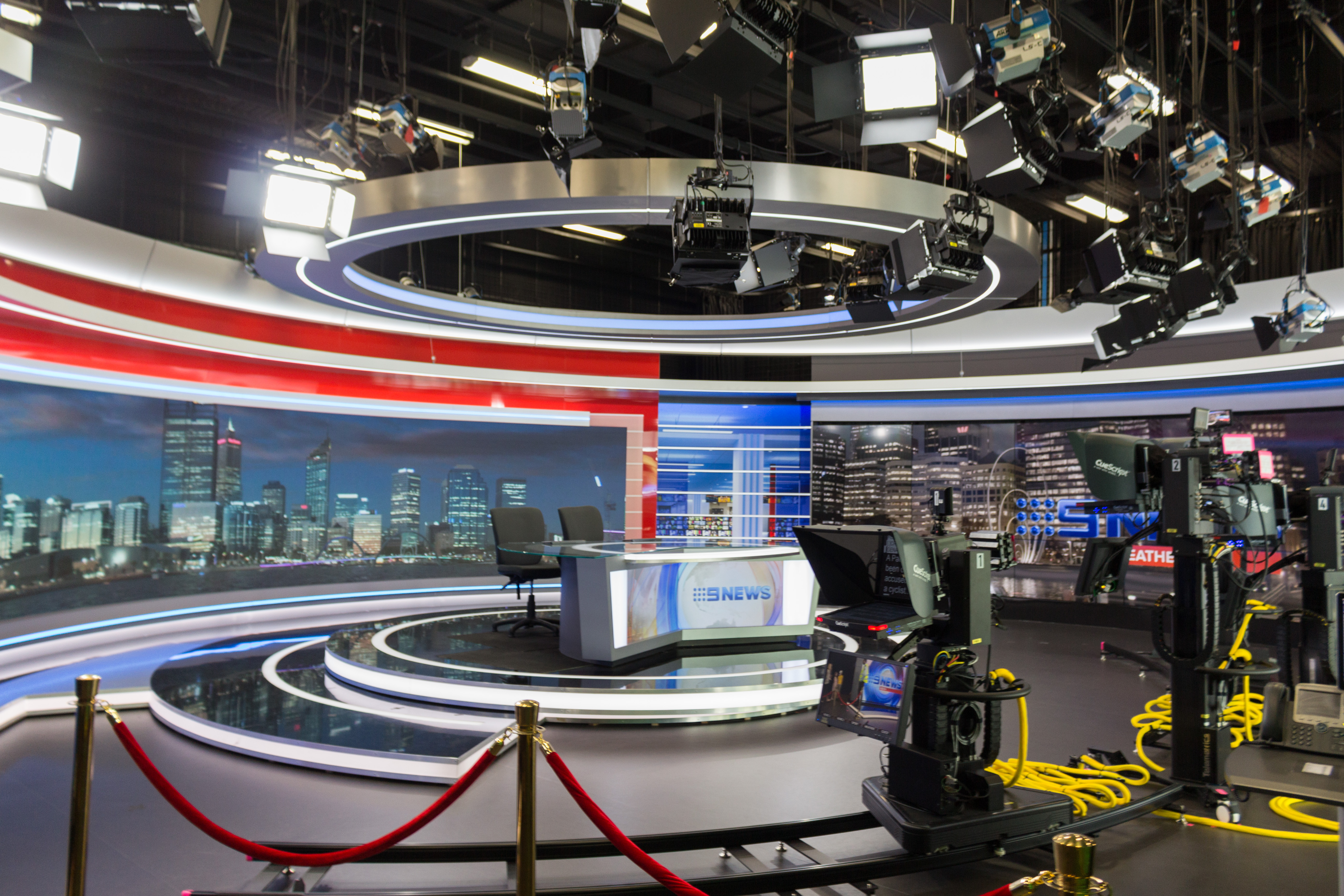 Studio at Nine Plaza (253 St Georges Terrace)